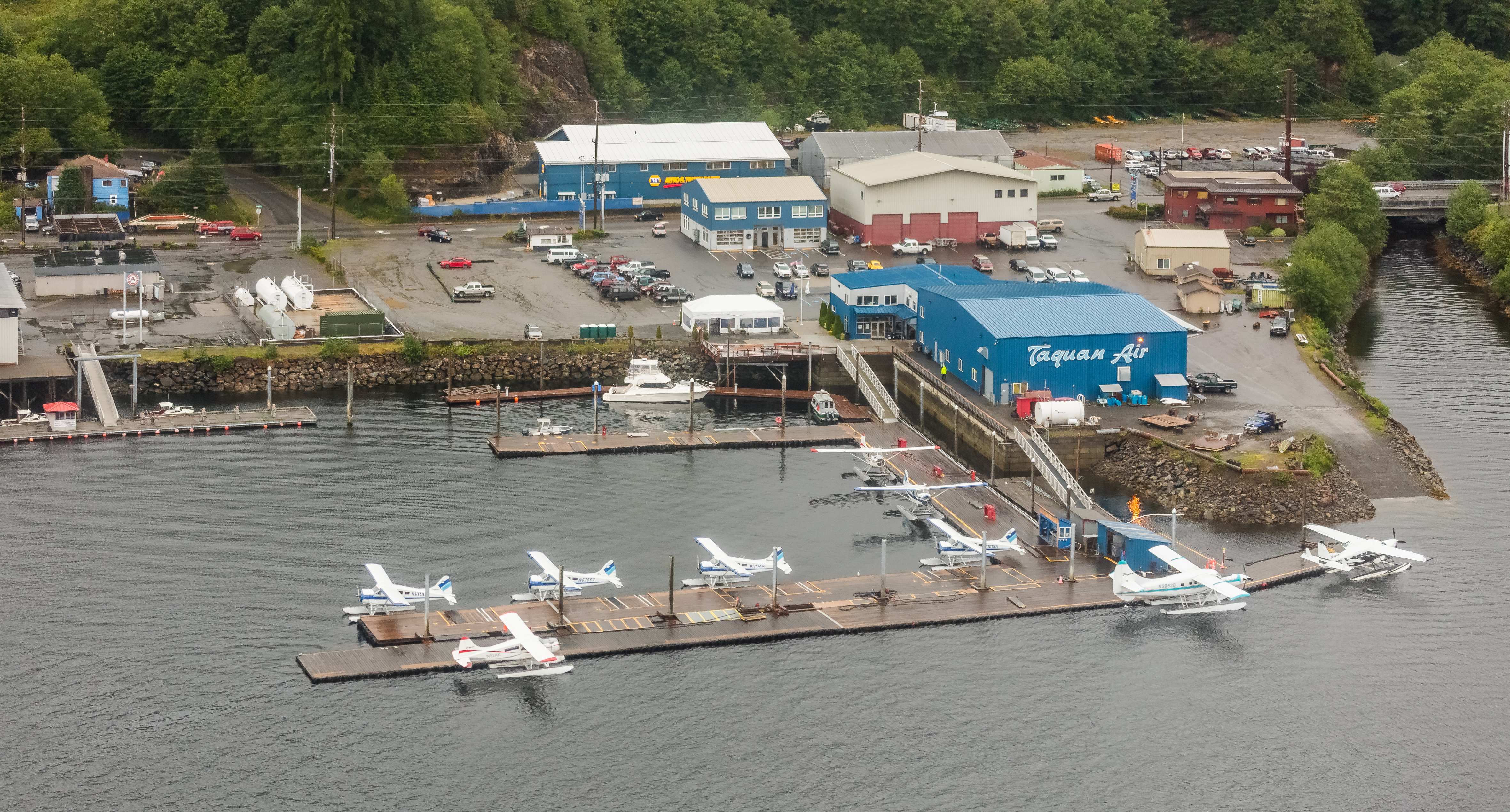 Ketchikan, Alaska, United States